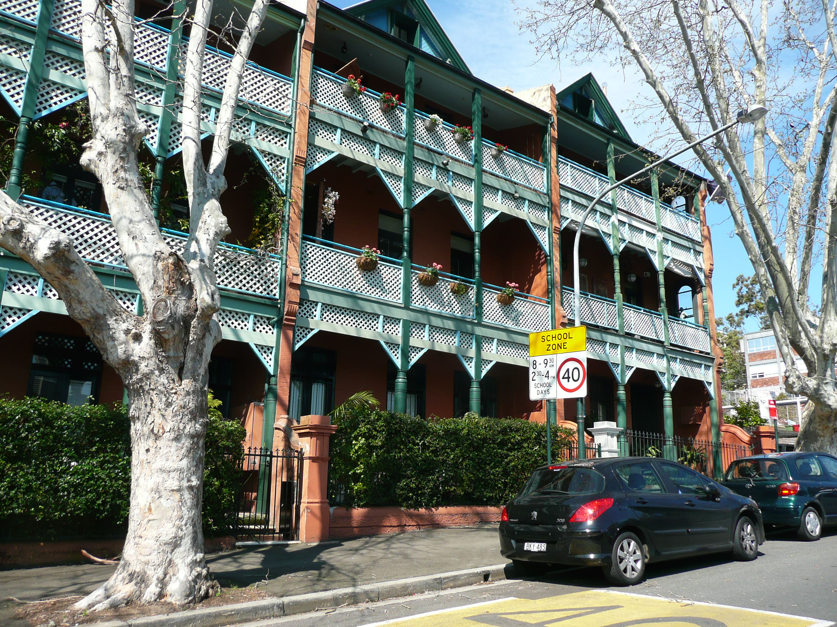 homes, potts point, sydney